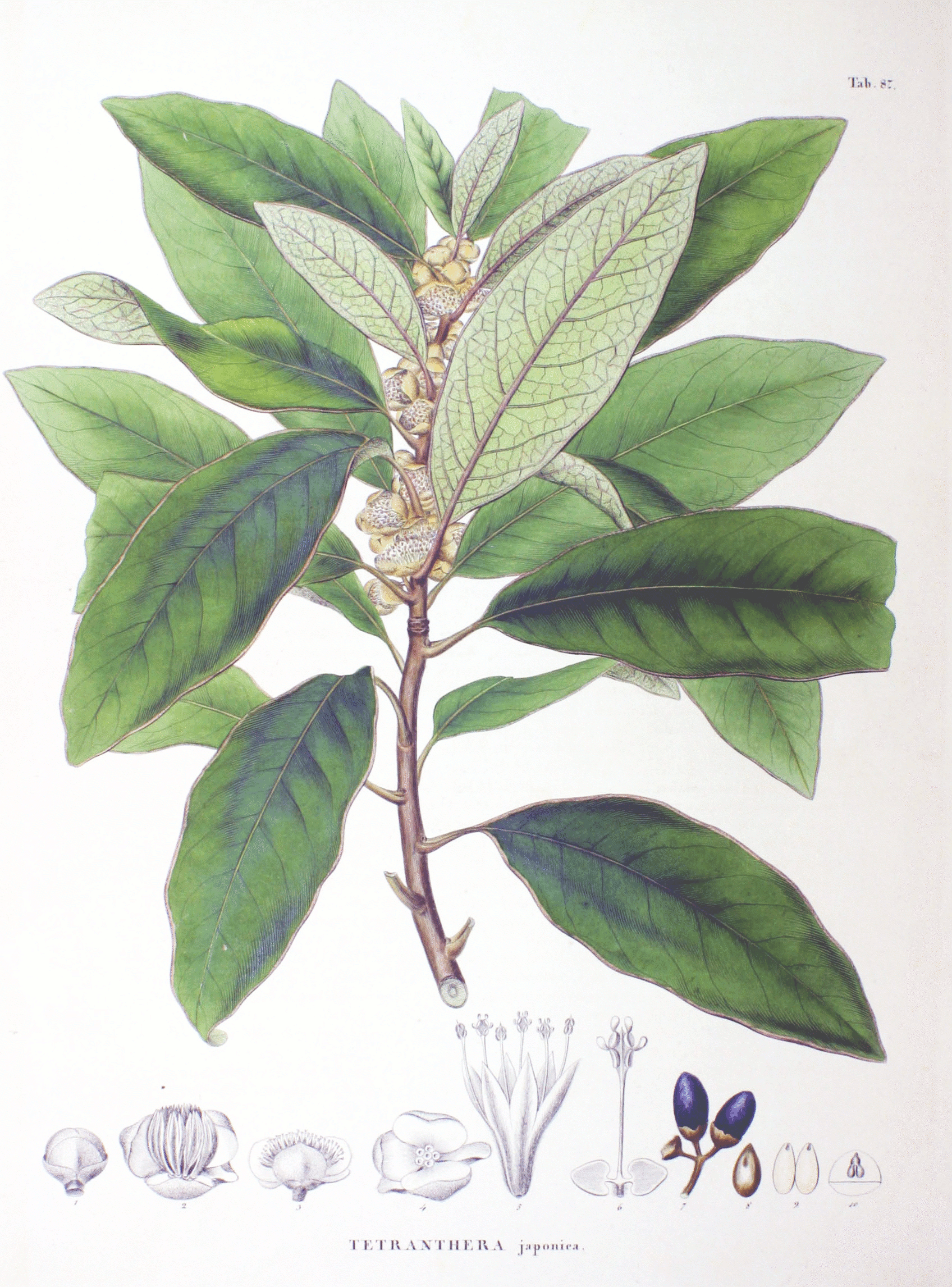 Plate from book